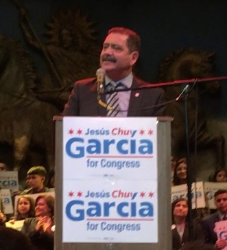 Chuy Garcia at "Chuy for Congress" rally in South Lawndale, Chicago, Illinois